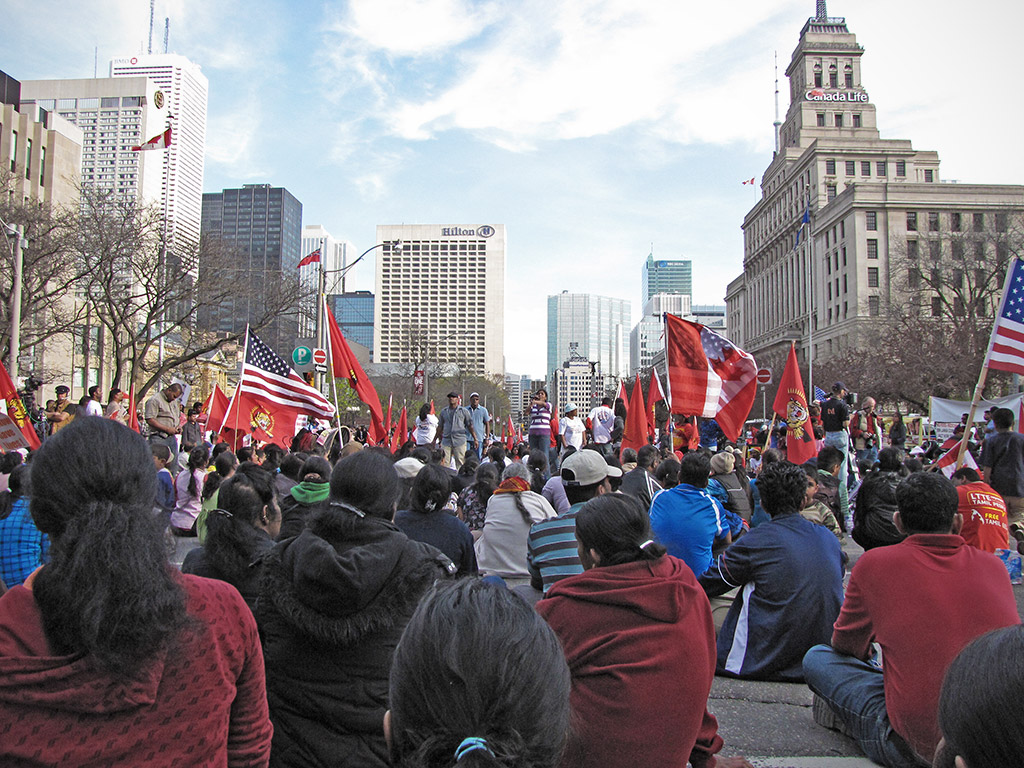 Tamil-Canadians protesting in front of the United States consulate against the violence in Sri Lanka towards the Tamil people. University Avenue, Toronto, Canada.